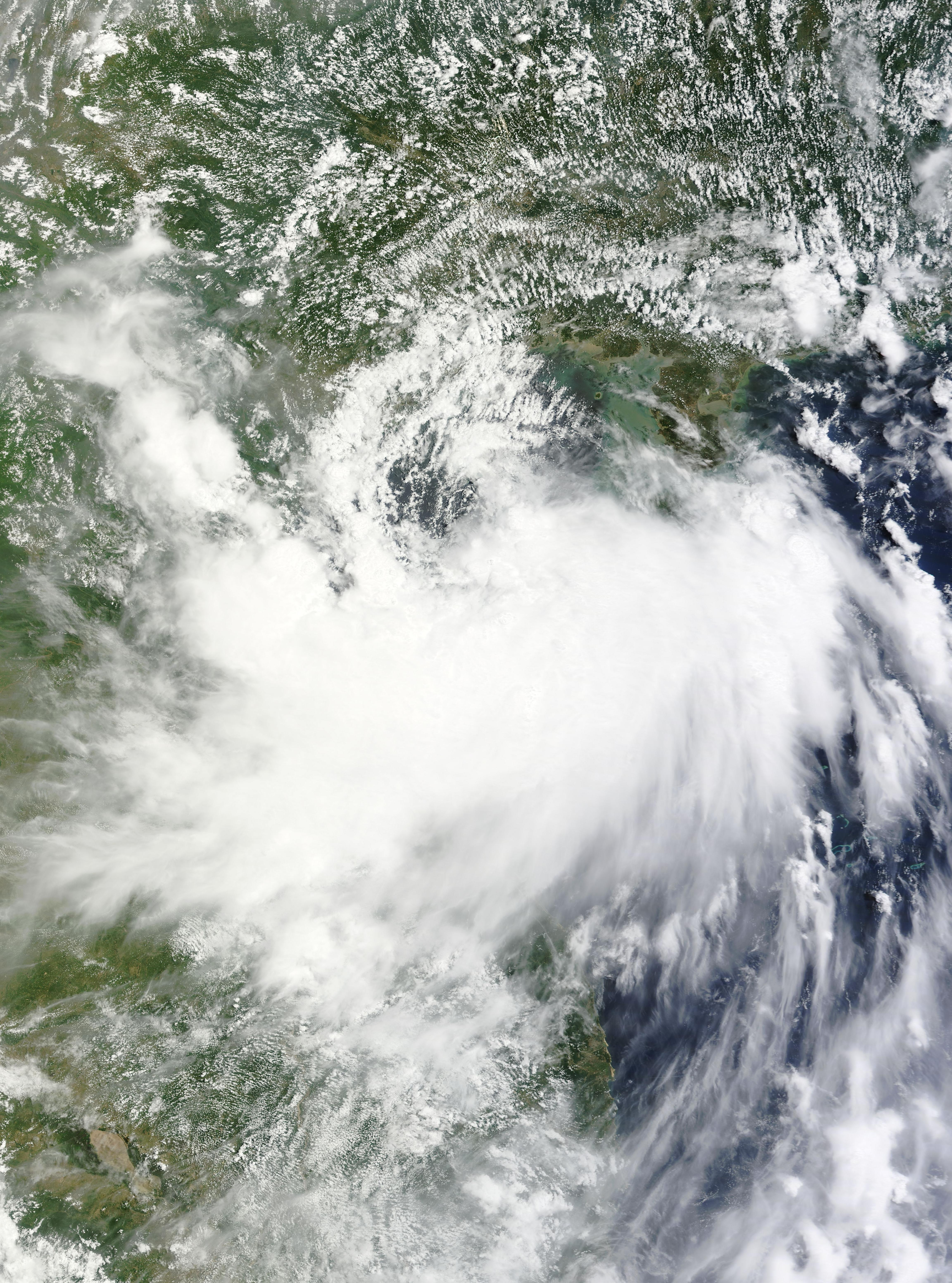 Severe Tropical Storm Mirinae over Gulf of Tonkin, nearing peak strength on July 27, 2016